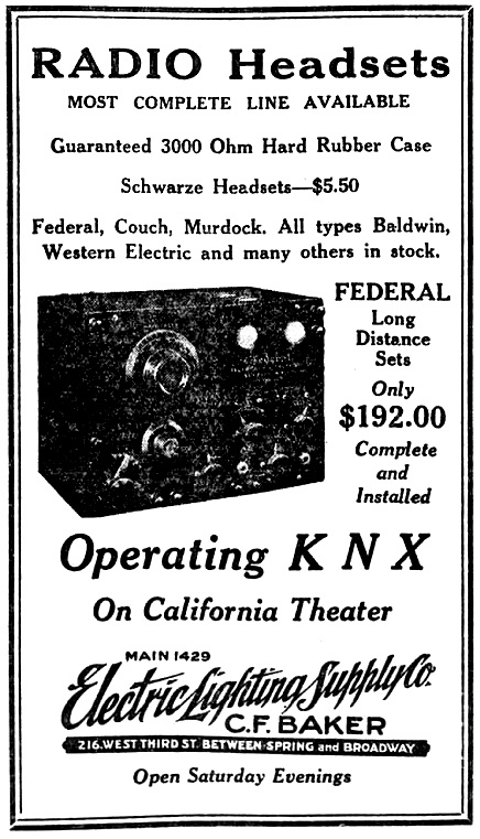 Advertisement for the Electric Lighting Supply Company, Los Angeles, California, which publicized the operation of its radio station, KNX, broadcasting atop the Los Angeles California Theater.